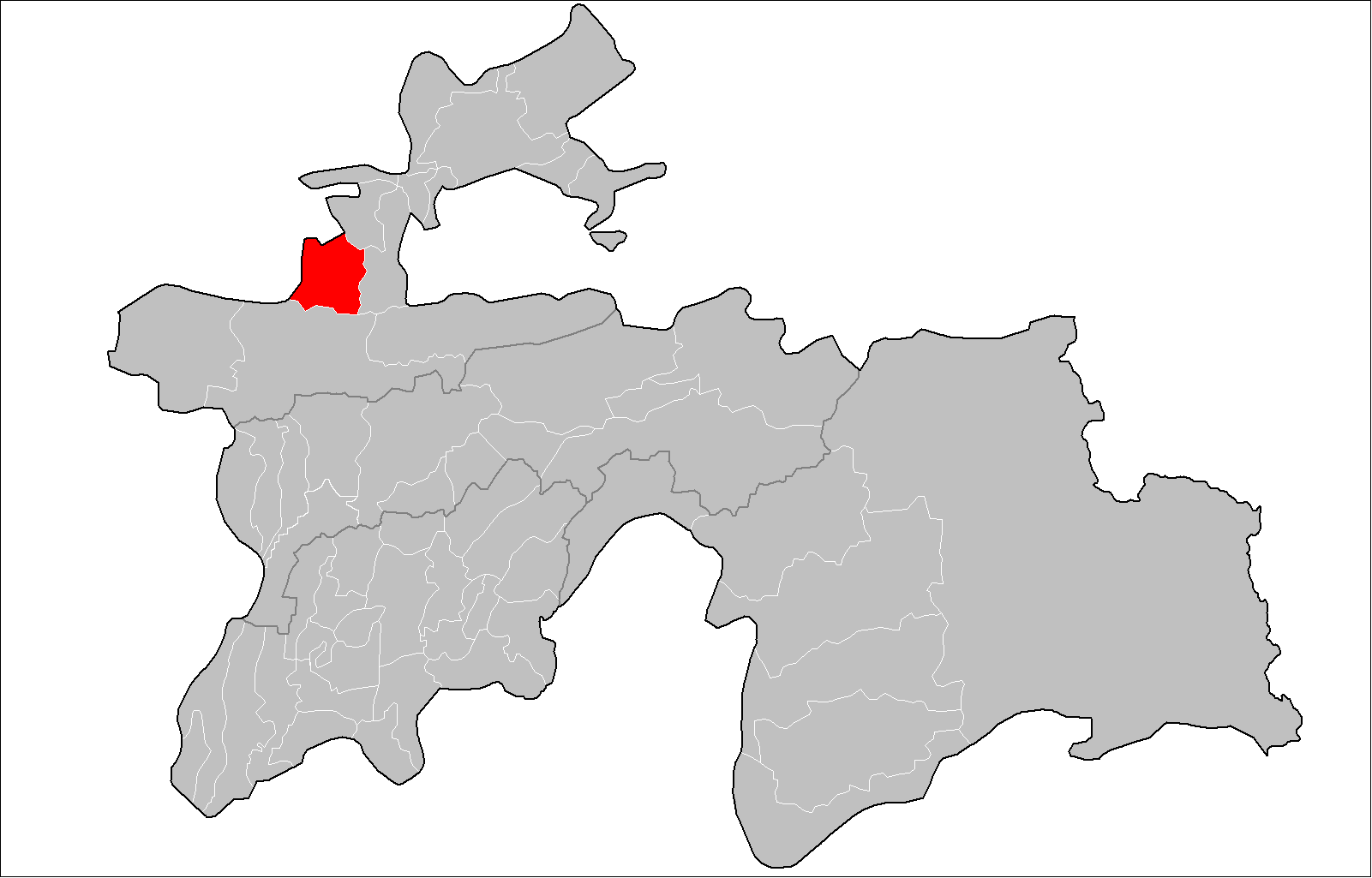 Location of Shahriston District in Tajikistan